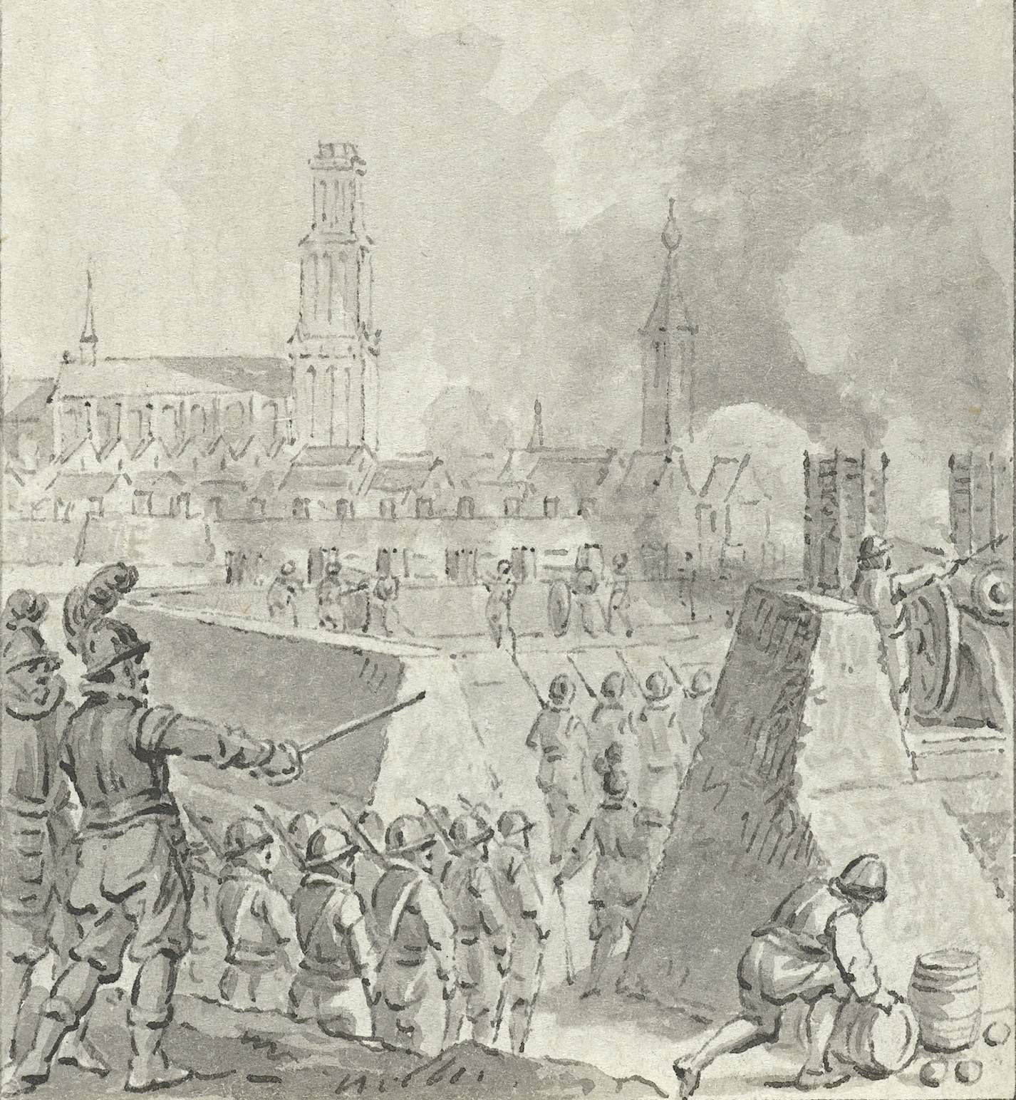 Beleg van Zaltbommel, 1599, Jacobus Buys